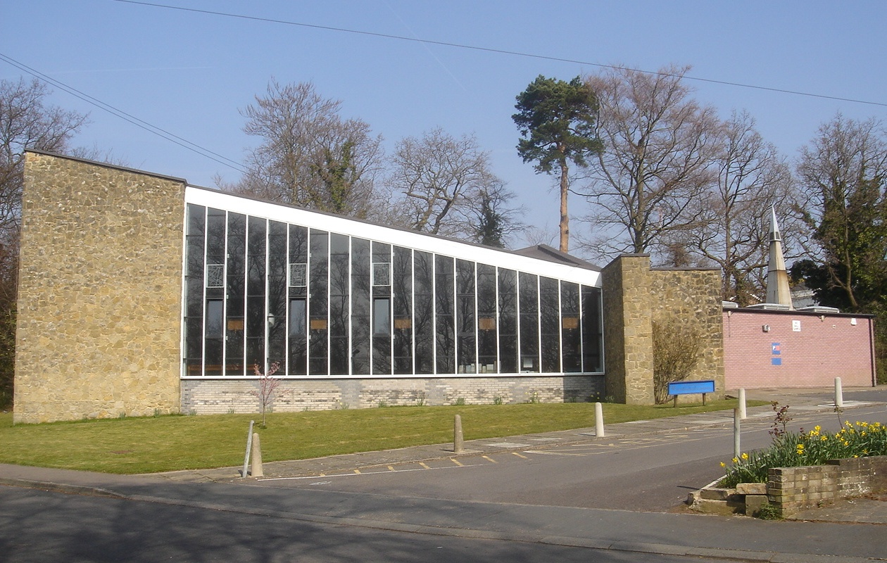 Roman Catholic church of St Edward the Confessor, Pound Hill, Crawley, West Sussex, built in 1965